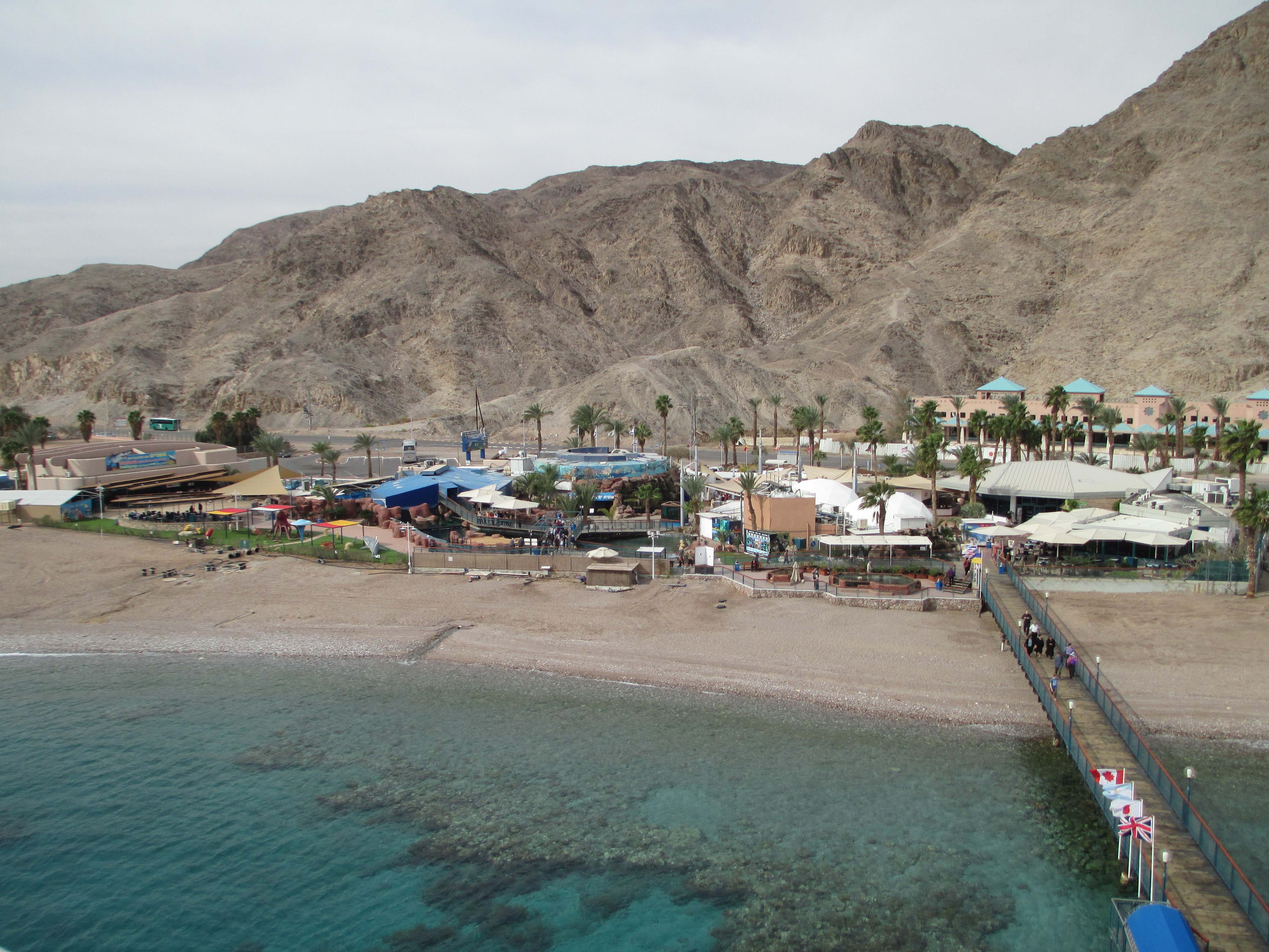 Underwater observatory in Eilat